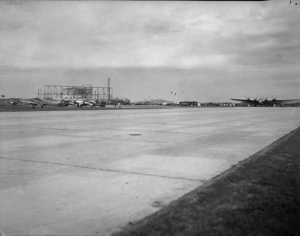 The opening of Sola Airport in Norway. To the right can be seen the Deutsche Lufthansa's Junkers G.38 airliner D-APIS, to the left the main hangar being constructed.